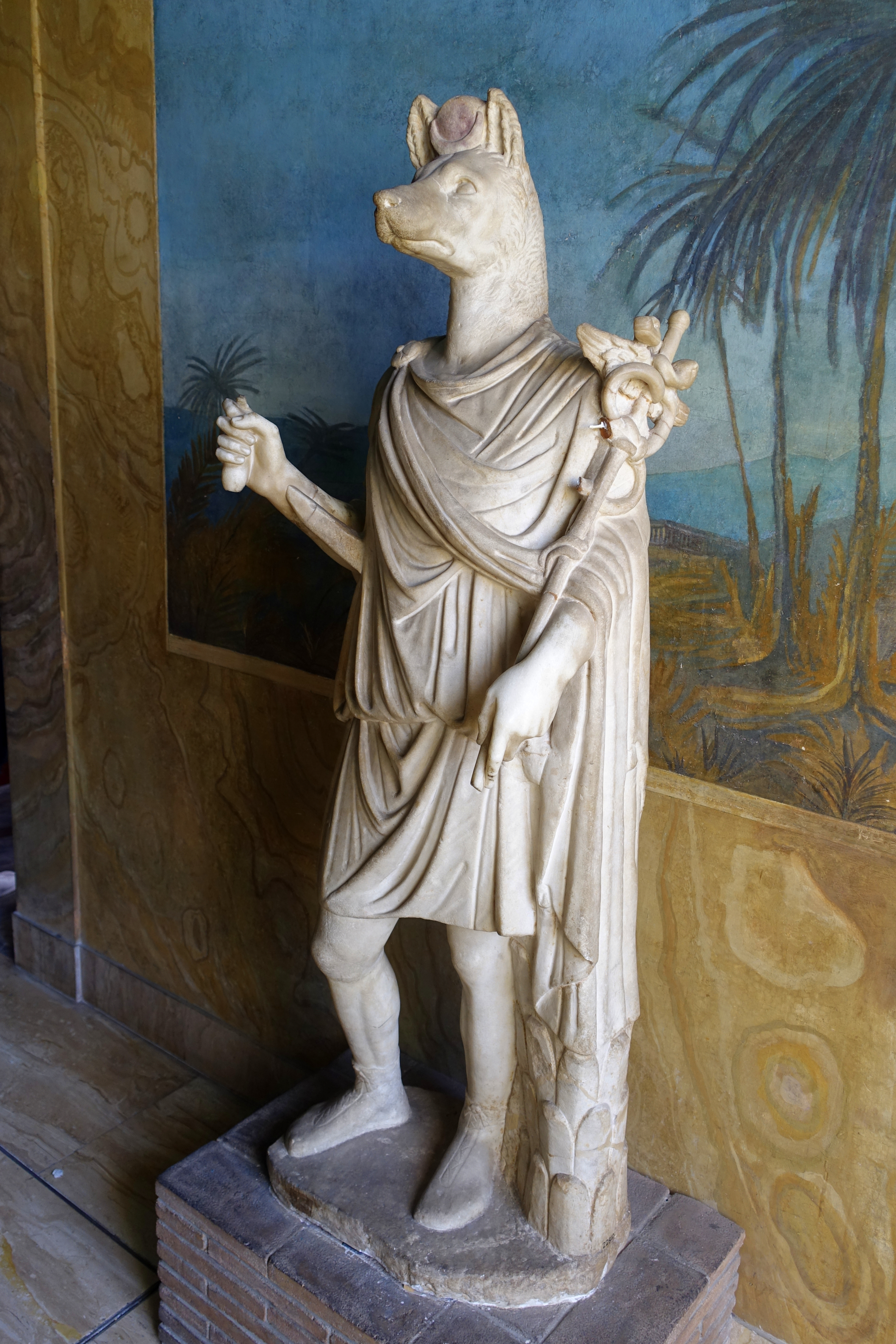 Exhibit in the Museo Gregoriano Egizio - Vatican Museums.